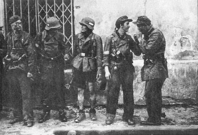 Warsaw Uprising: Soldiers from "Miotła" Battalion "Radosław" group after several hour sewer march from placu Krasińskich to Warecka street in Śródmieście district, early morning on September 2, 1944.